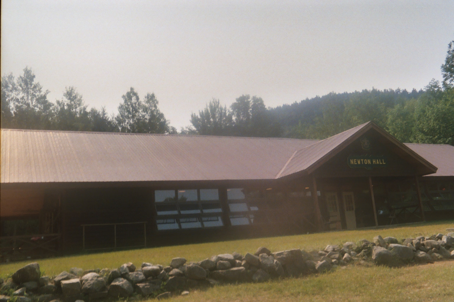 Newton Hall, the dining hall of the Boy Scouts of America's Camp Buckskin at the Curtis S. Read Scout Reservation, Brant Lake, New York.